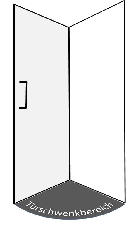 Door opening range